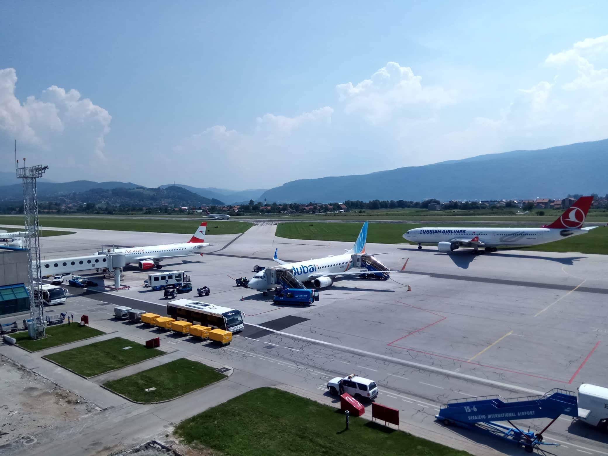 Turkish Airlines A330 at Sarajevo Airport